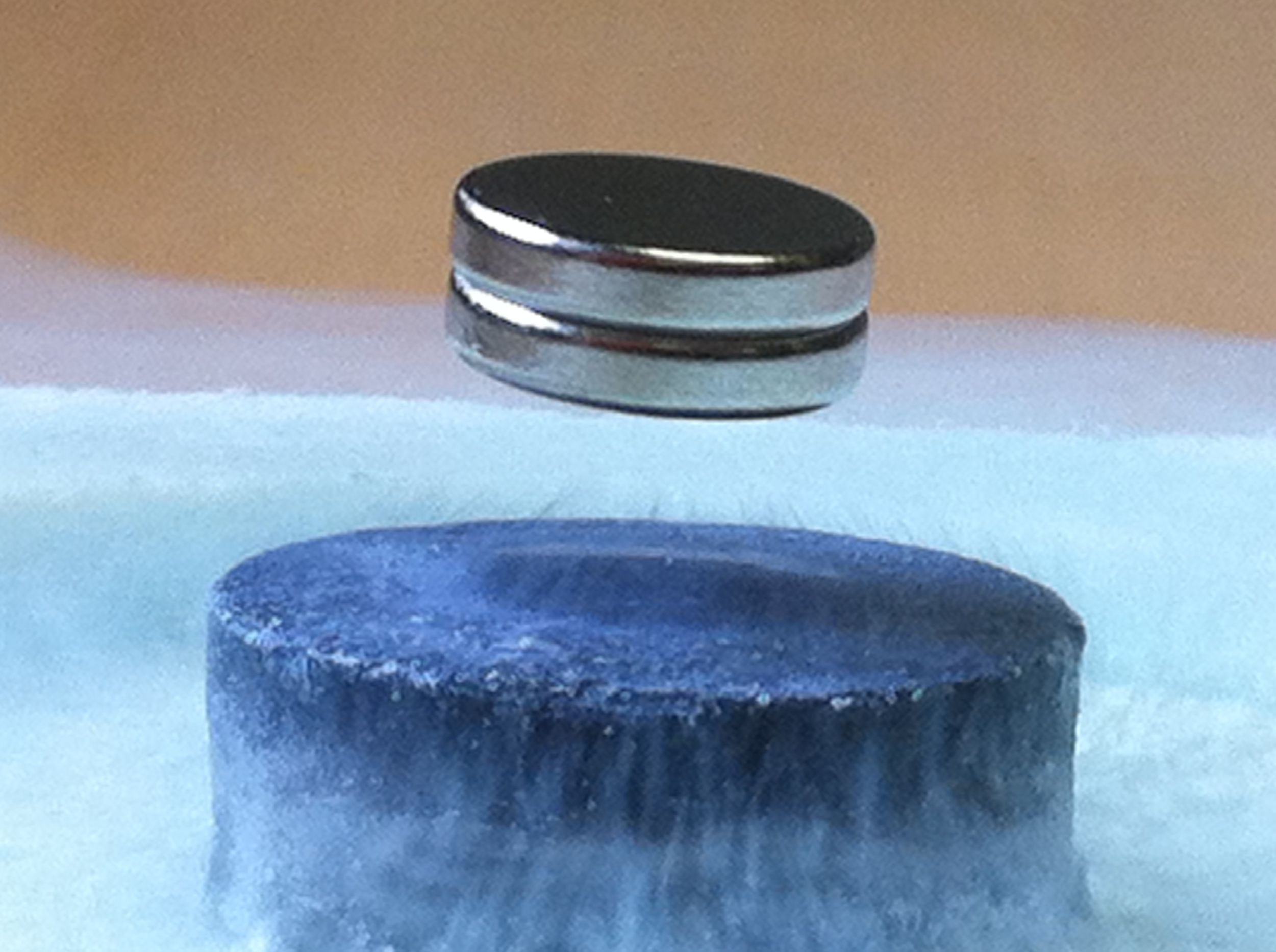 Permanent magnet levitating with superconductor